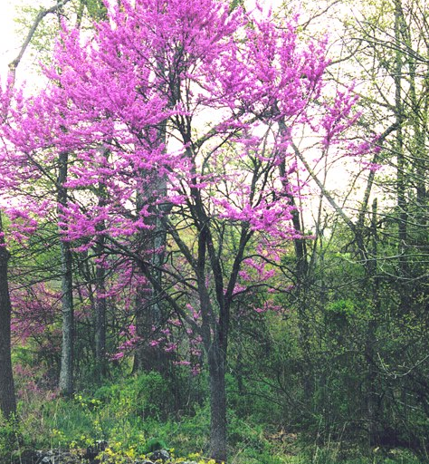 Image is from the National Park Service and is in the public domain. category:Cercis canadensis